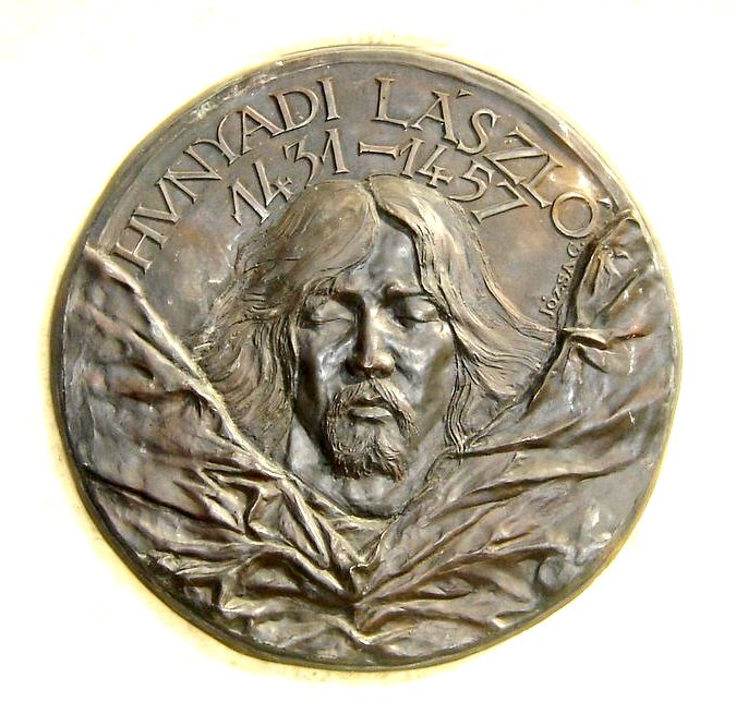 László Hunyadi tondo-portrait